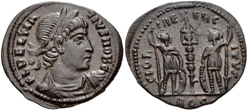 Delmatius. Caesar, AD 336-337. Æ Follis (18mm, 1.22 g, 11h). Aquileia mint, 2nd officina. FL DELMA-TIUS NOB C, Laureate, draped, and cuirassed bust right GLOR-IA EXERC-ITUS, Signum between two soldiers, each holding spear and shield; AQS. RIC VII 142.